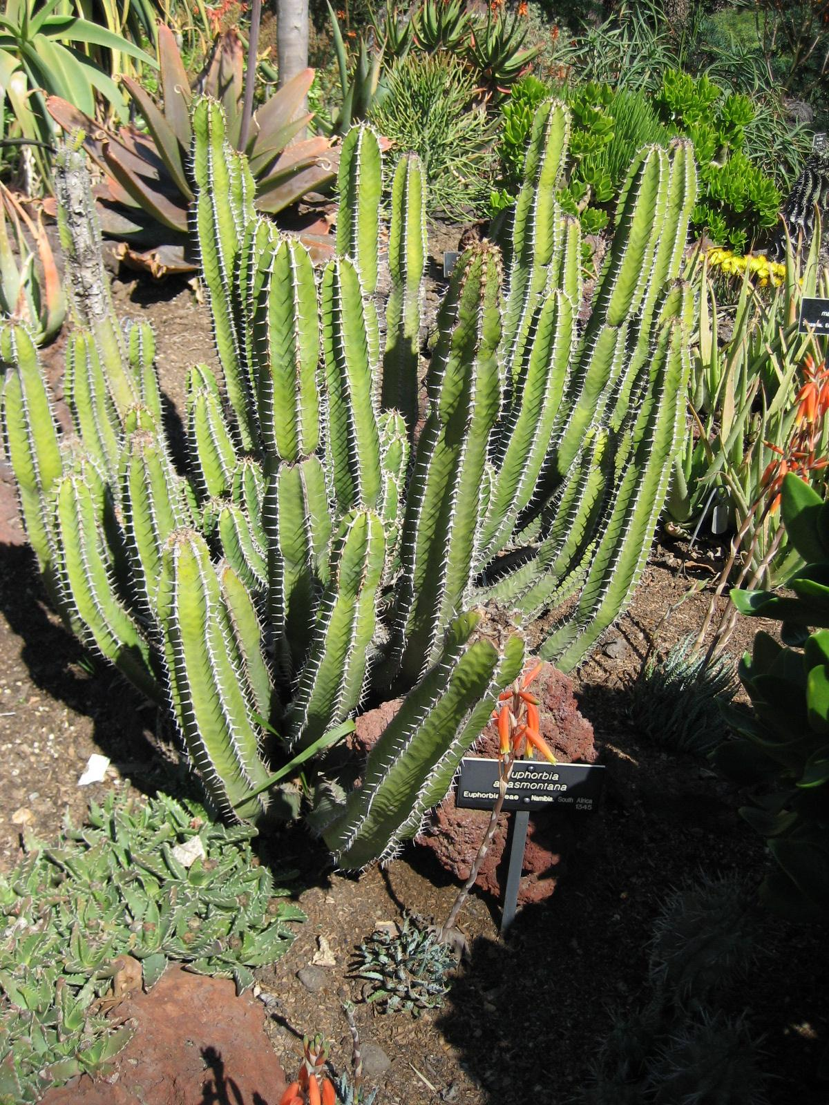 Photographed at Huntington Gardens (Los Angeles) in March